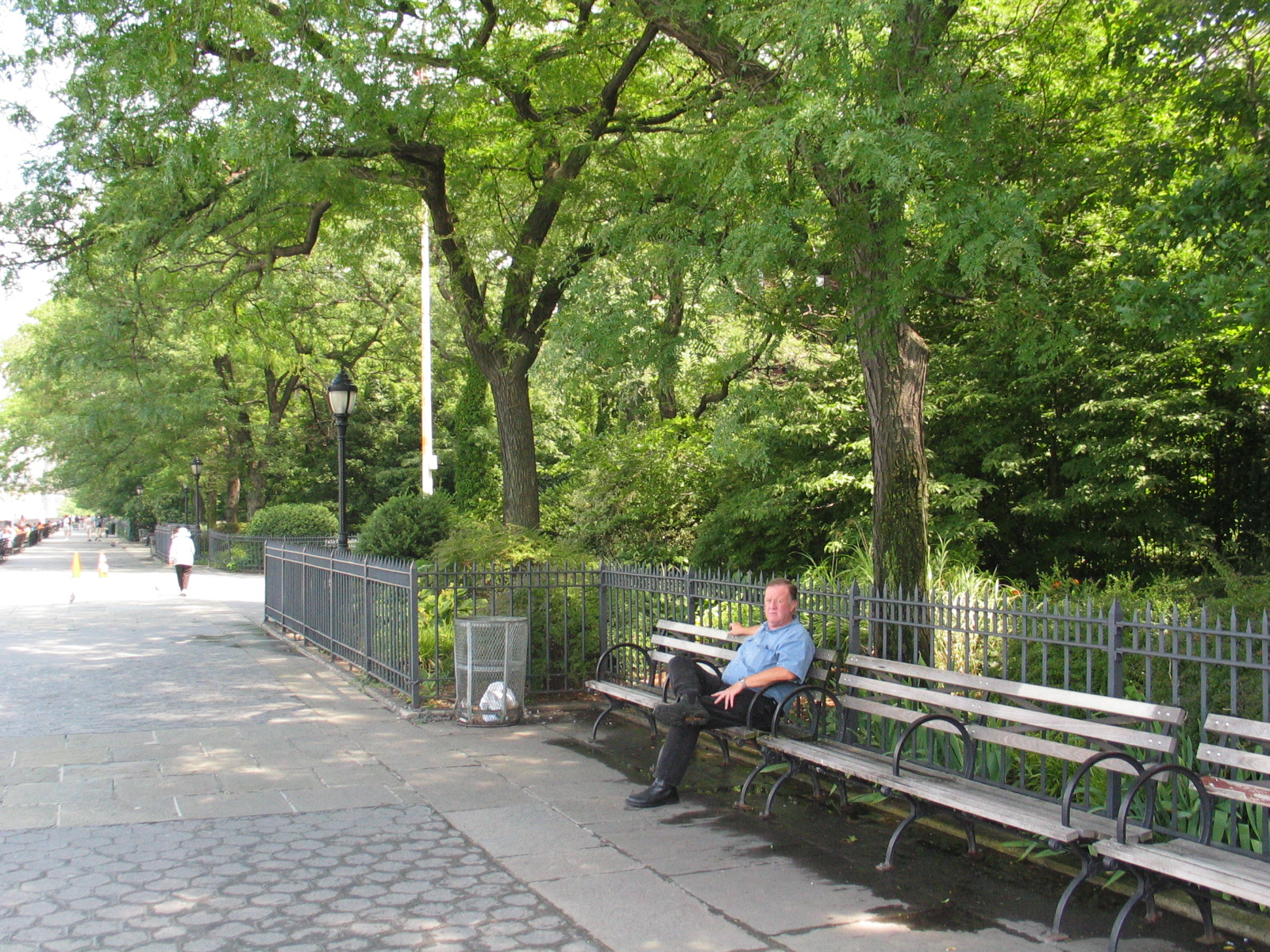 At the Brooklyn heights Promenade